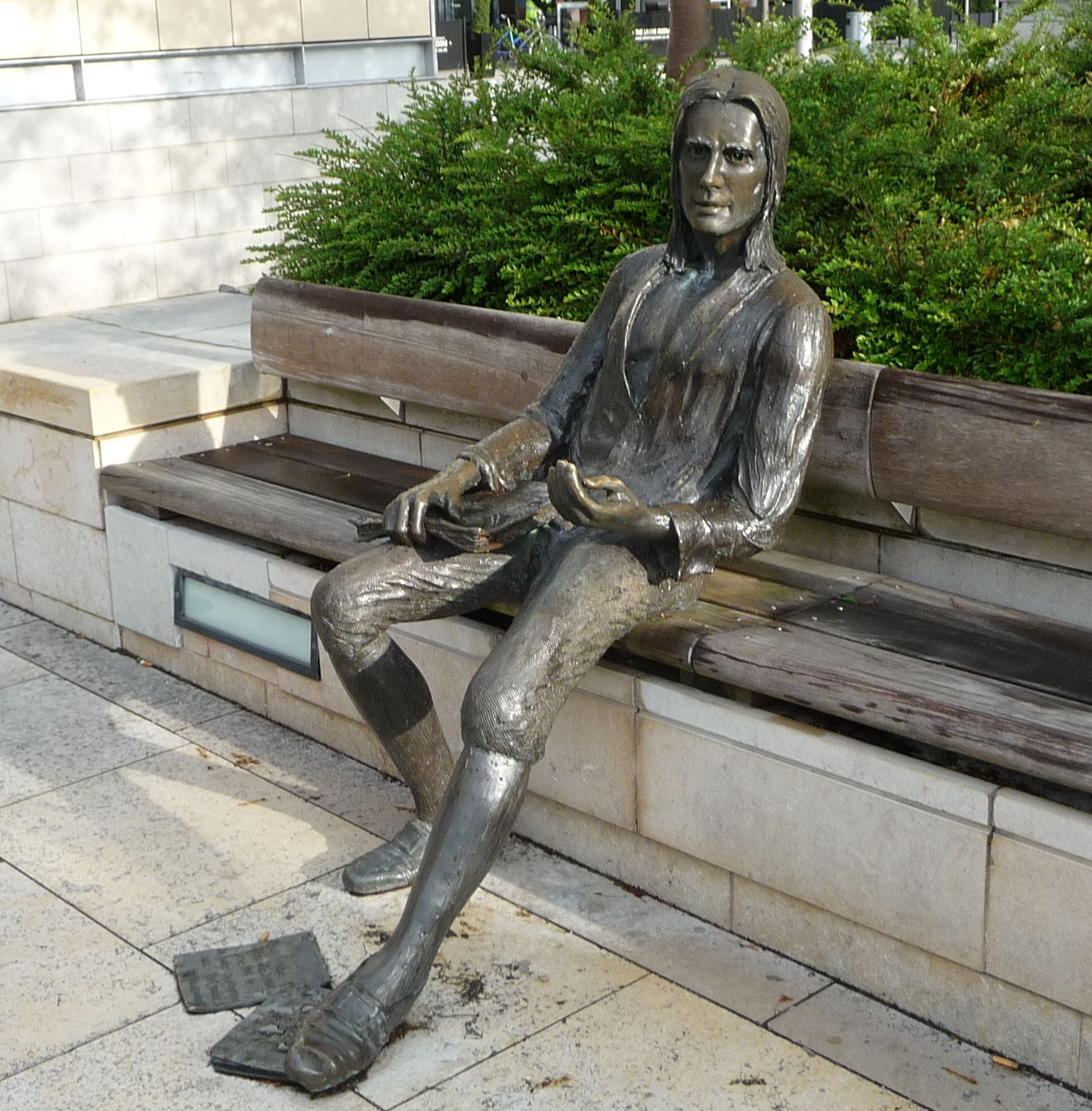 The tragic young poet Thomas Chatterton, a statue by Lawrence Holofcener